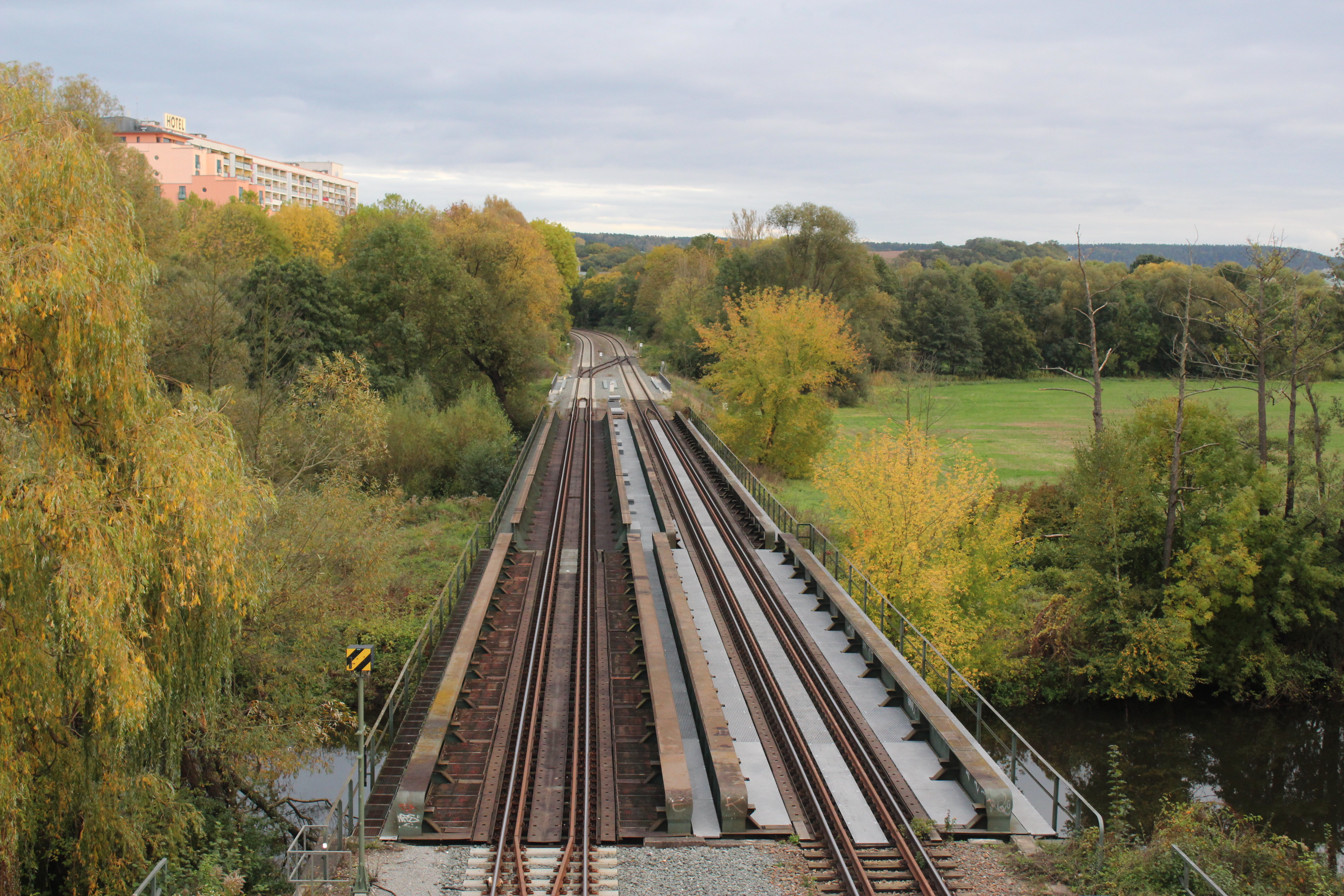 railway Weimar-Gera near Göschwitz